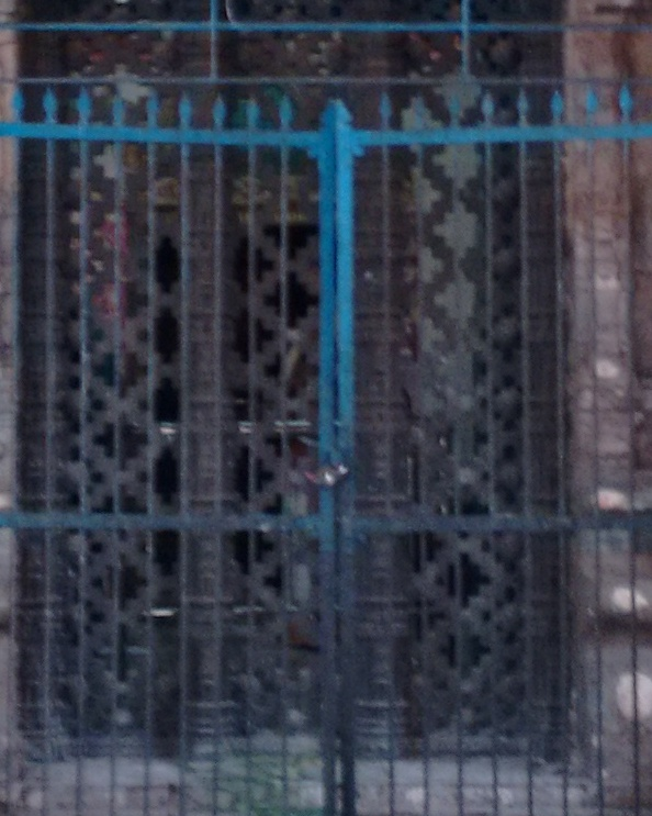 திருவலஞ்சுழி வெள்ளைவிநாயகர் கோயில் Tiruvalanchuli Vellaivinayaka temple